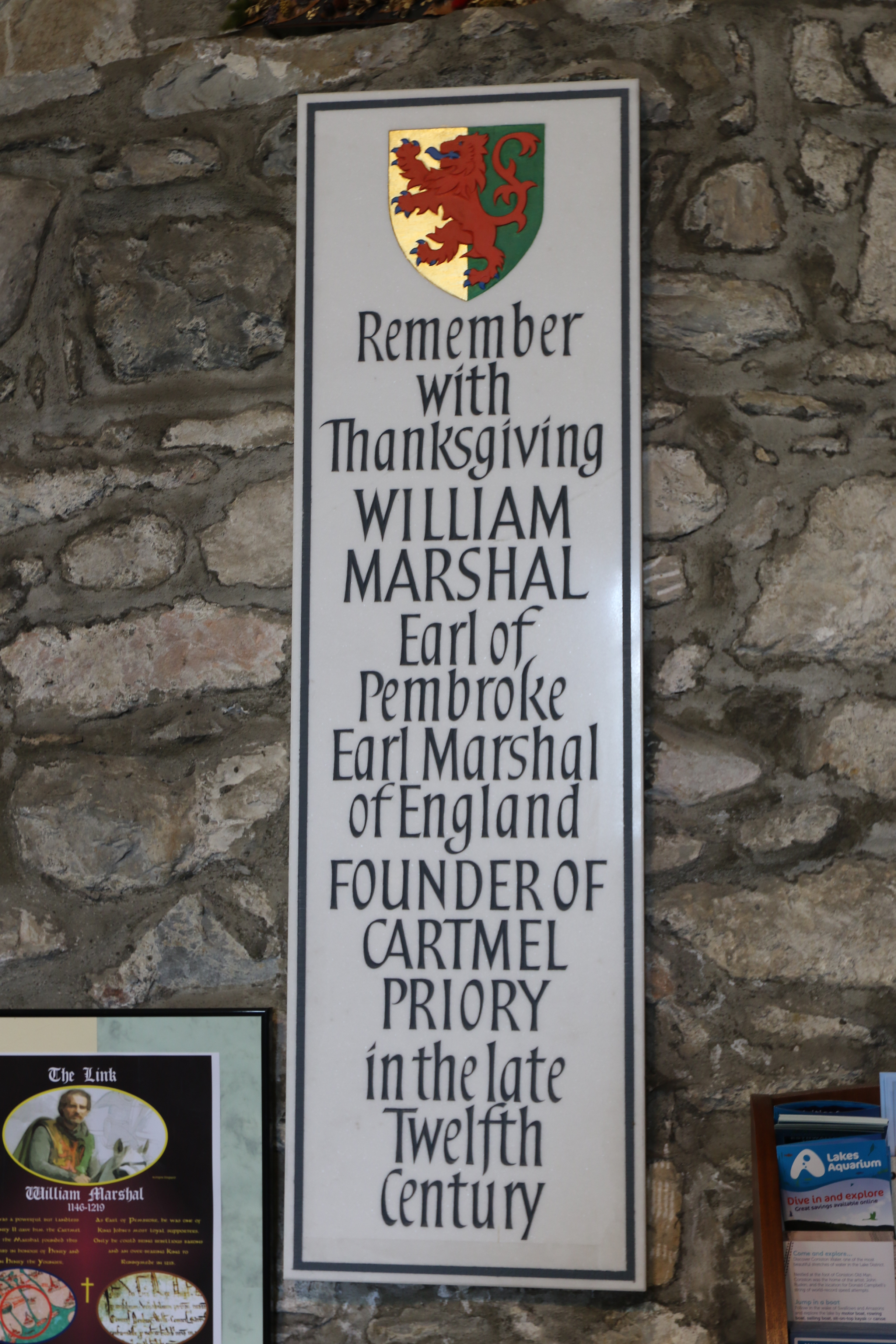 William Marshal, Earl of Pembroke, Earl Marshal of England. Founder of Cartmel Priory in the late 12th century.